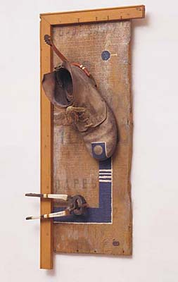 Laszlo Szlavics Sr.: The young master, mixed technique, 34x76 cm, 1978